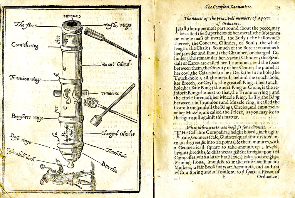 An engraving showing the parts of a cannon, from the page facing page 25 of John Roberts' The Compleat Cannoniere (1652).